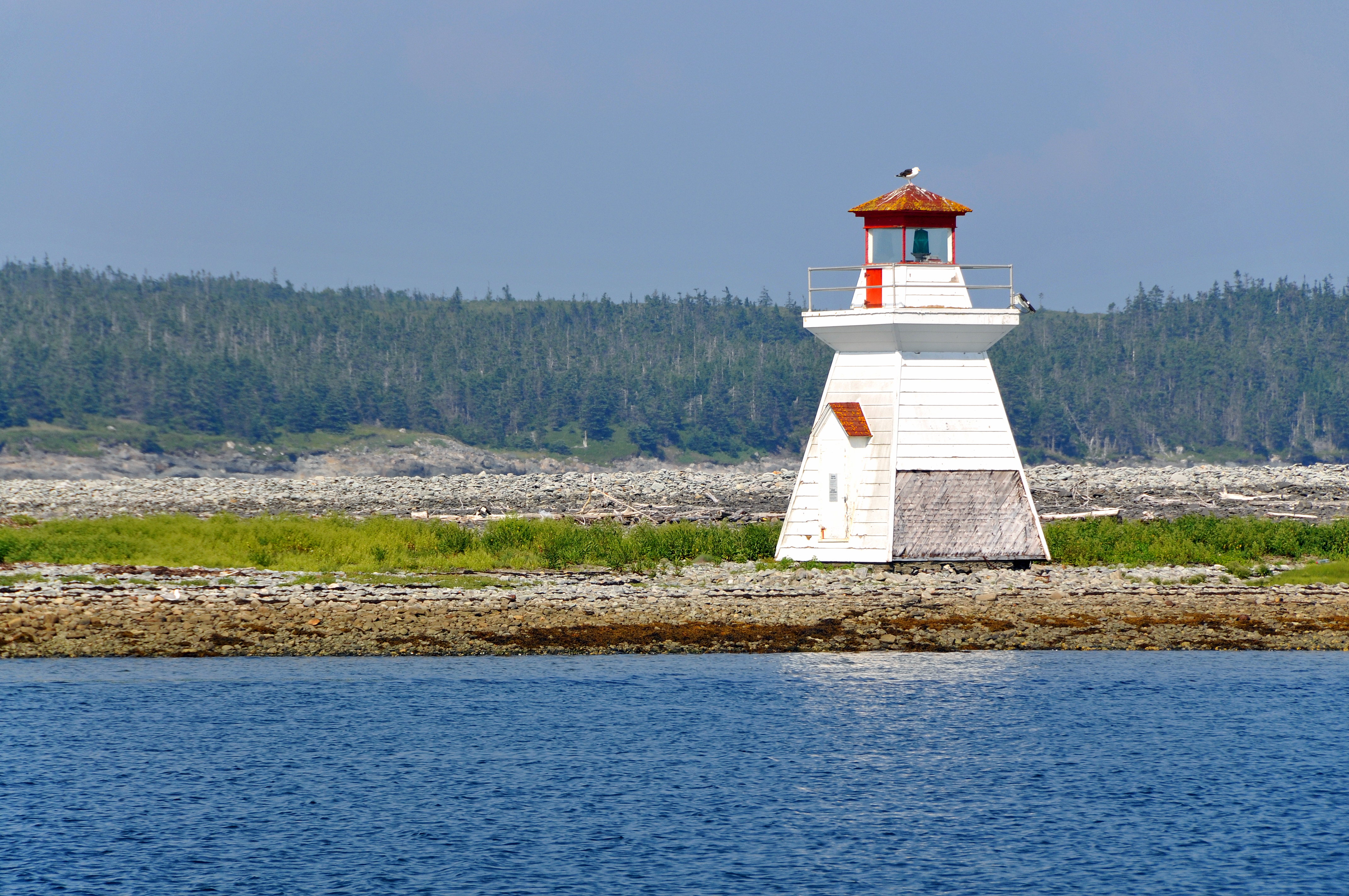 The lighthouse at Fishermans Harbour is another one of the active lighthouses declared surplus by the Canadian Federal Government. Location: On beach, south side of harbour Standing: This light is still standing. Operating: This light is operational Automated: All operating lights in Nova Scotia are automated. Date Automated: Automated by 1941 Began: 1905 Year Lit: 1905 Structure Type: Tapered square wood tower, white, red lantern Light Characteristic: Fixed Green (1992) Tower Height: 023ft feet high. Light Height: 025ft feet above water level.